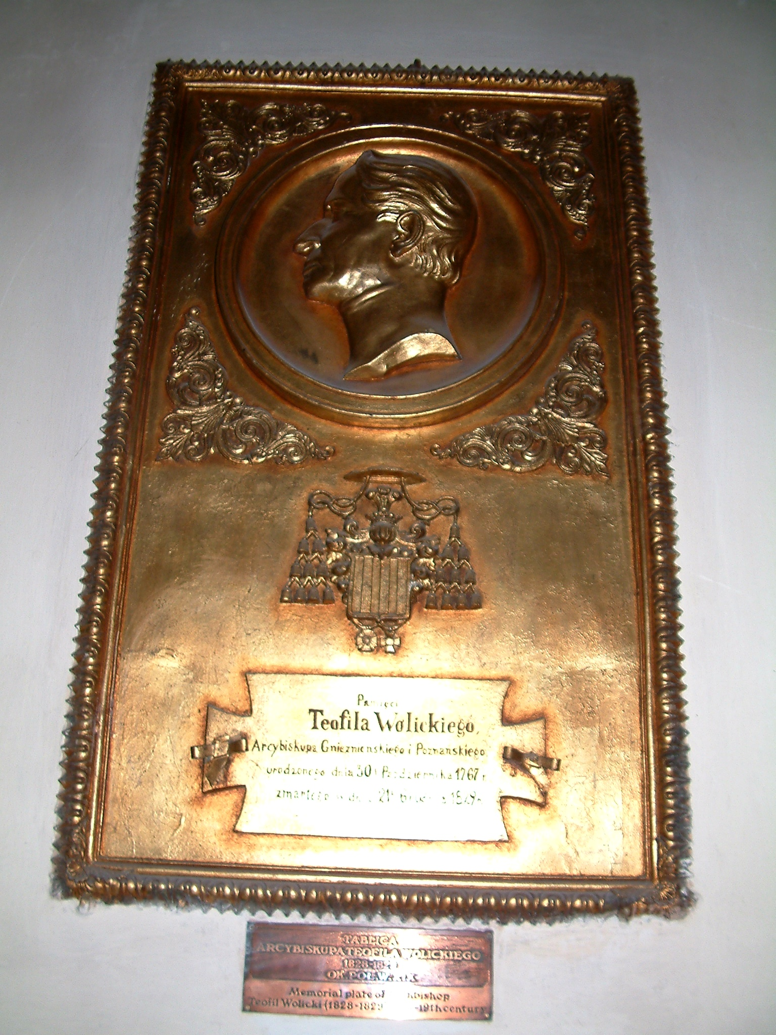 Epitaph of bishop Teofil Wolicki in Poznań Archcathedral Basilica